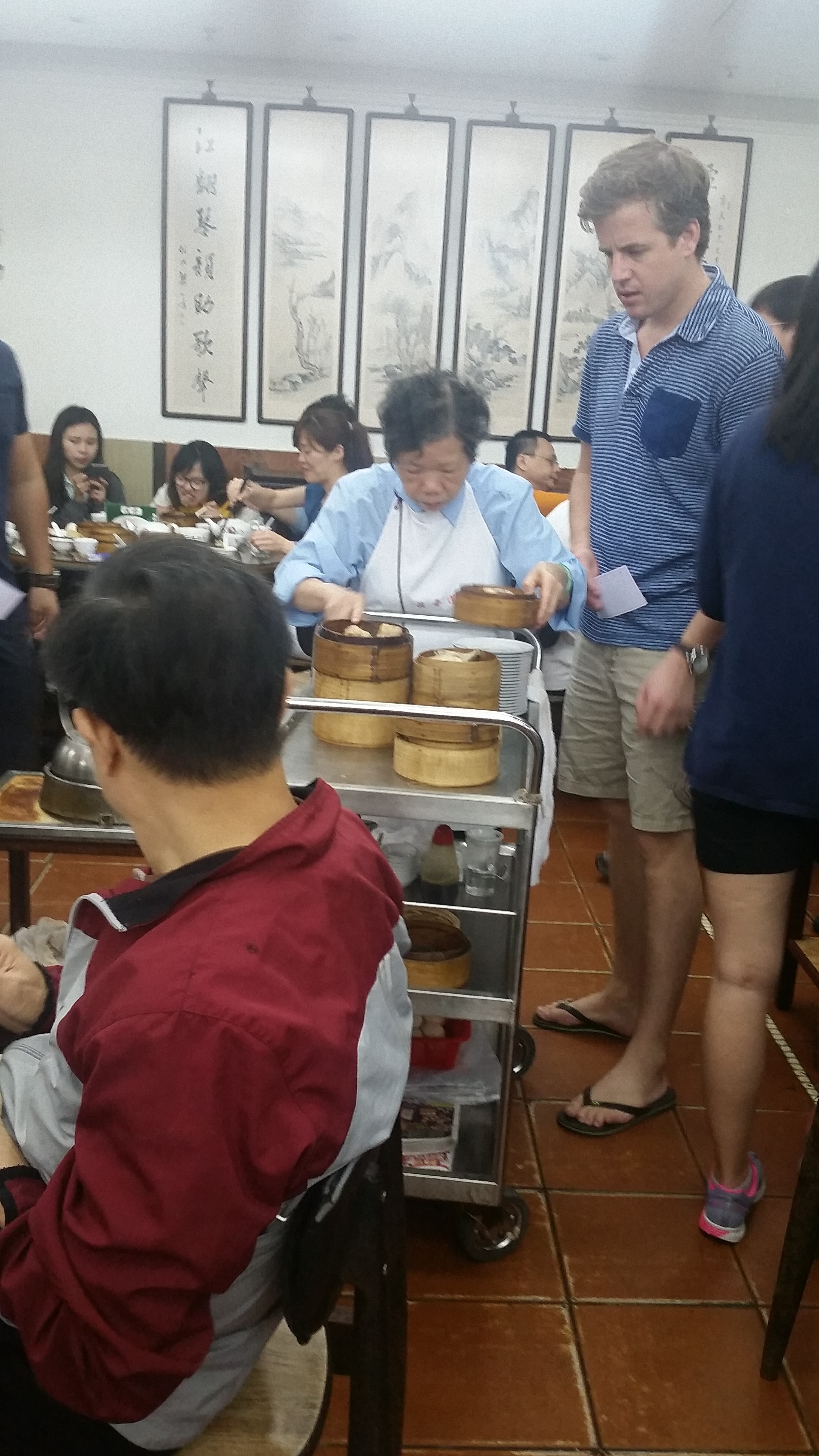 Lin Heung Tea House